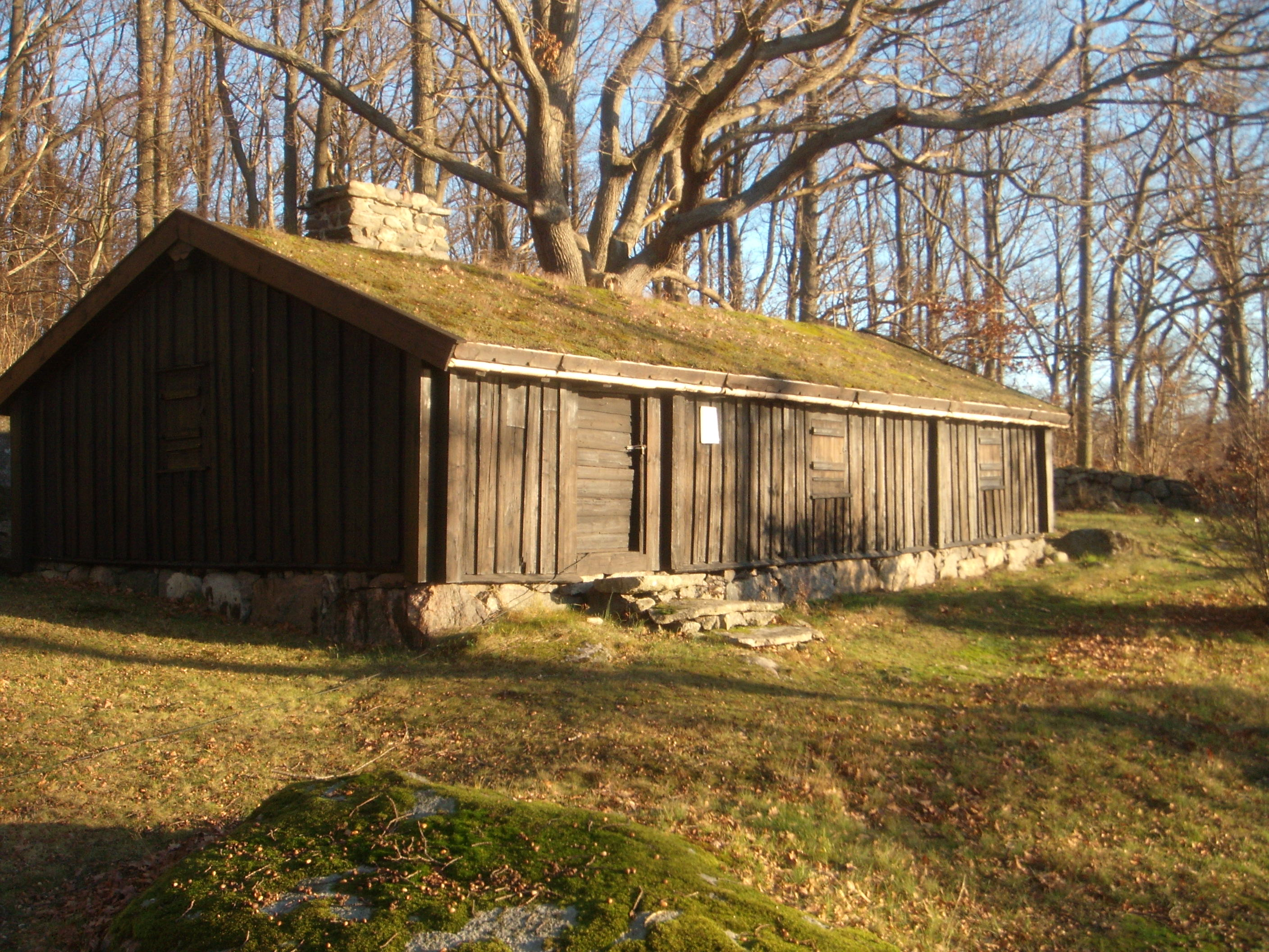 Timberframed house in Sweden.